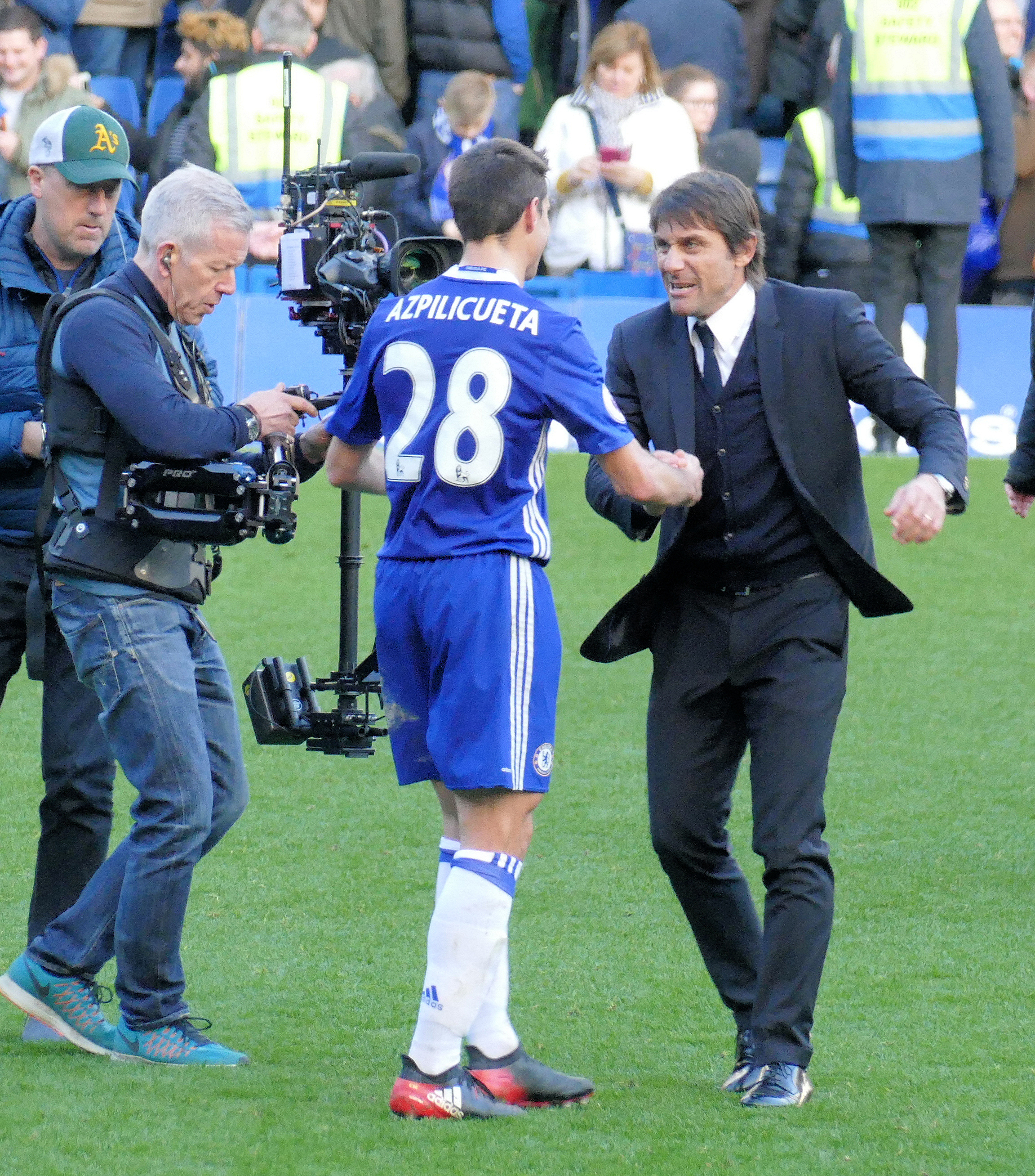 Chelsea manager Antonio Conte celebrates a victory over W.B.A. at Stamford Bridge, December 2016